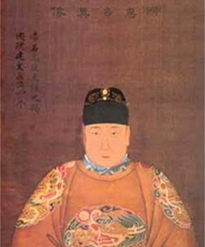 The Jianwen Emperor of the Ming Dynasty (AD 1368 - 1644) of China; this painting was made during his short reign of 1398 to 1402.